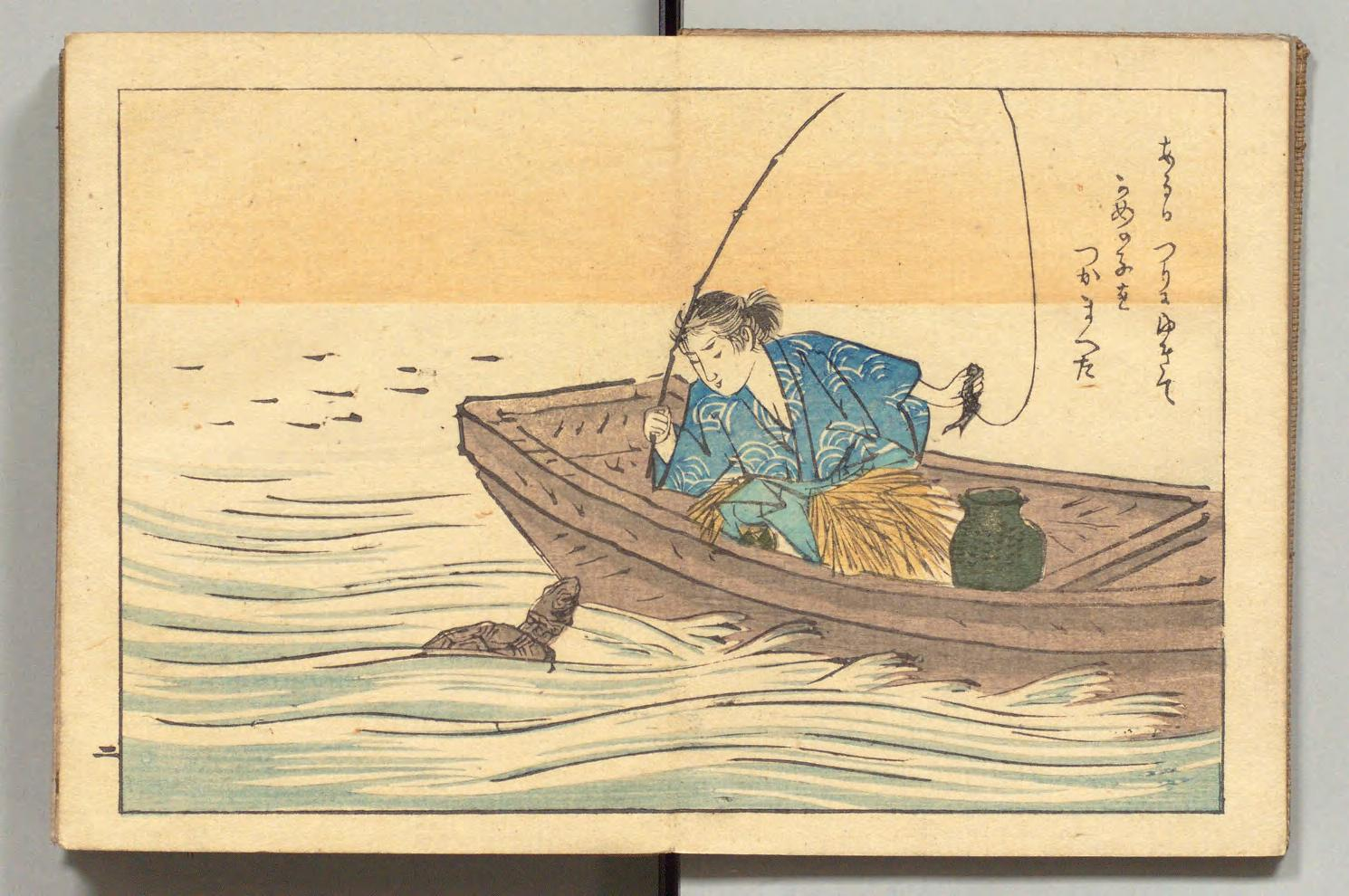 p. 2, Urashima Tarō catches a turtle while fishing on his boat